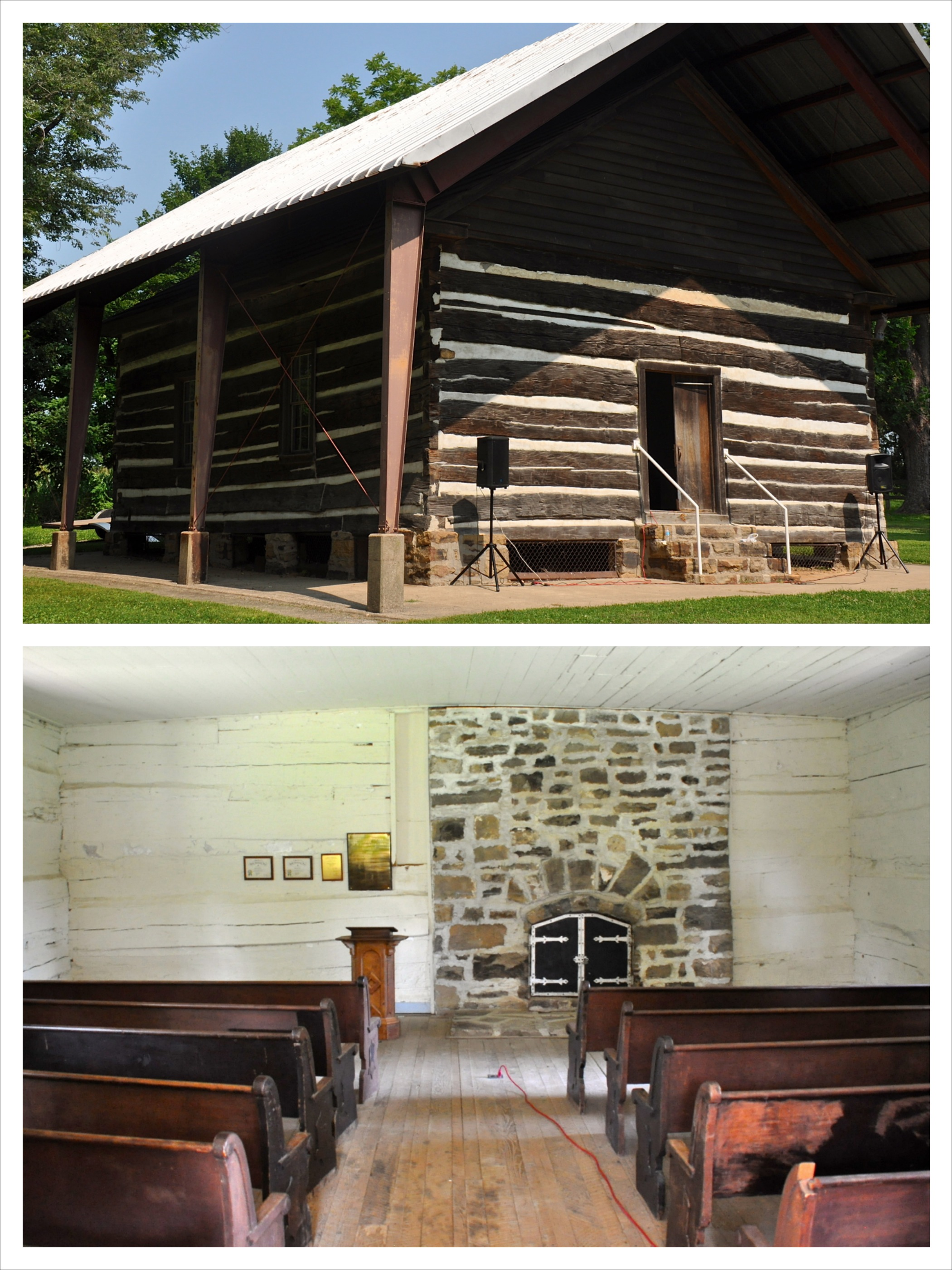 McKendree Chapel, Off Interstate 55; also the southern side of Bainbridge Rd., 0.5 miles west of Interstate 55 Jackson